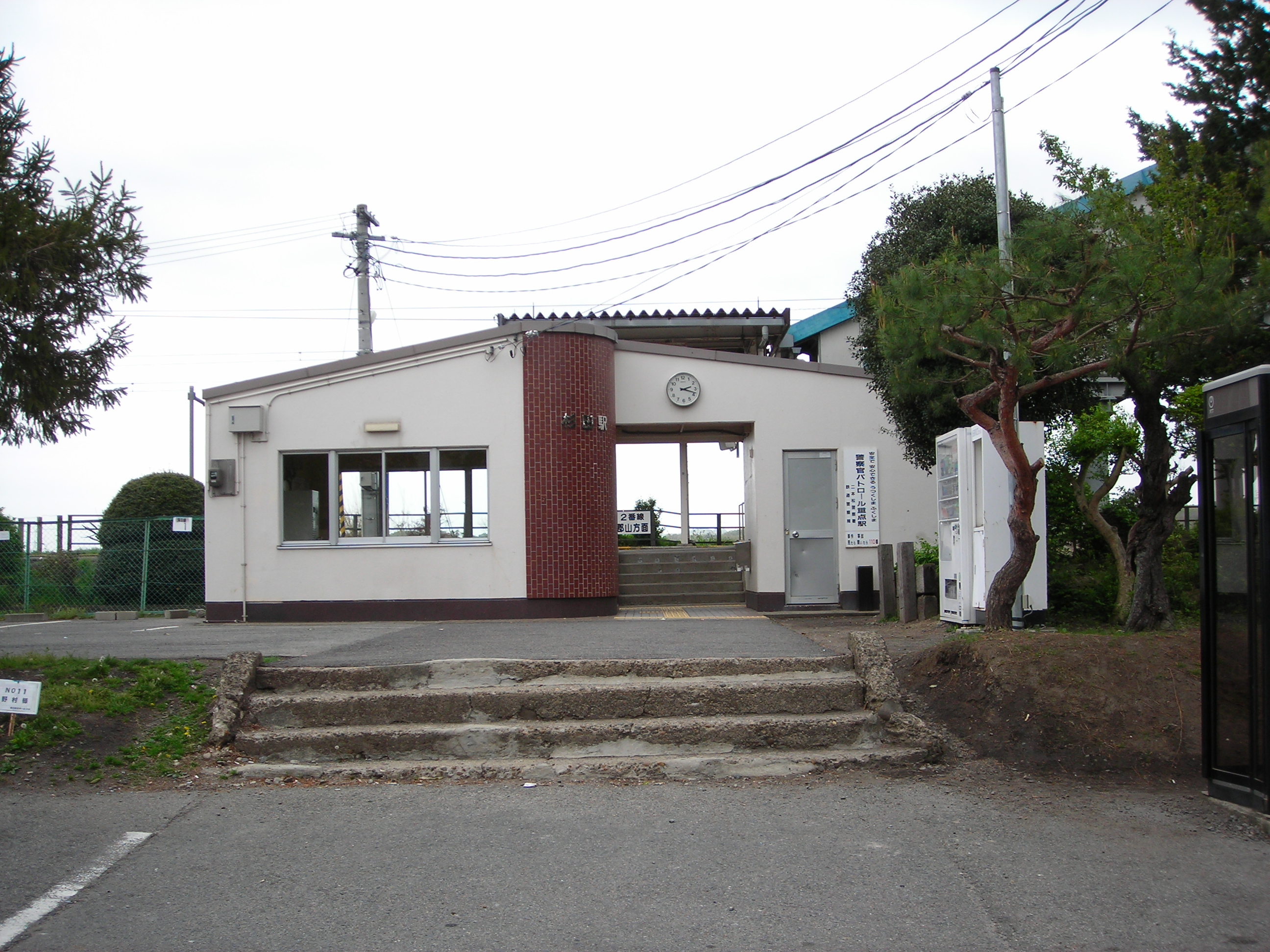 Sugita Station, Nihonmatsu, Fukushima, JapanNikon Coolpix L3